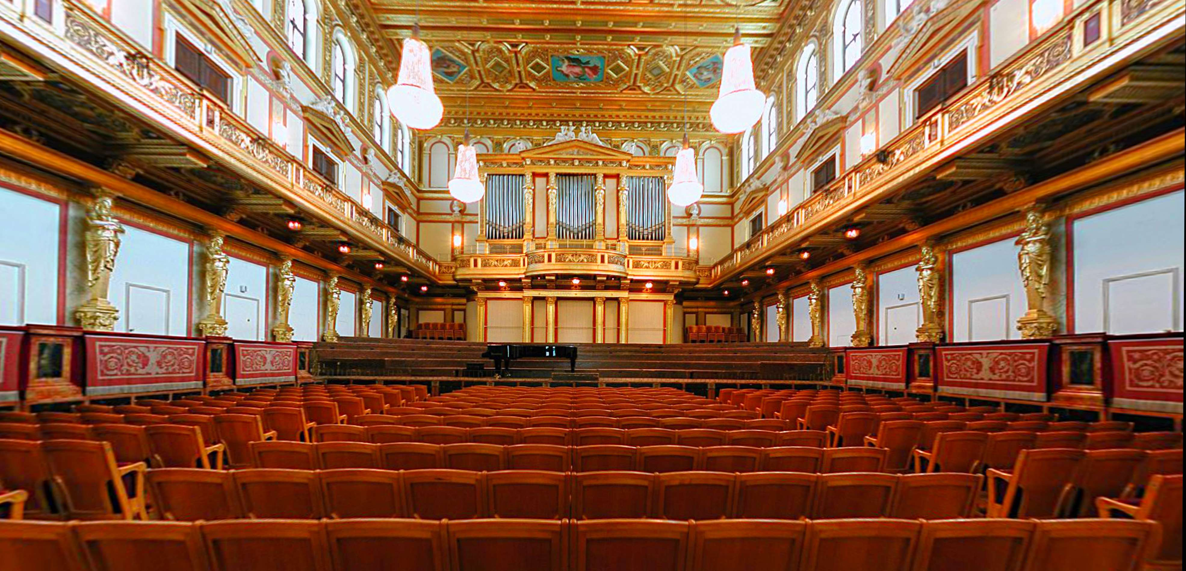 Goldener Saal [Golden Hall] of the "Musikverein" in Vienna. Note that its precise name is Großer Konzerthaussaal [Big Hall], "golden" just being a later added common attribute (guess why ;).